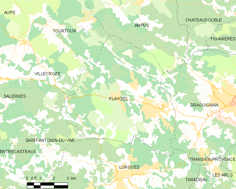 Map of French municipality Flayosc